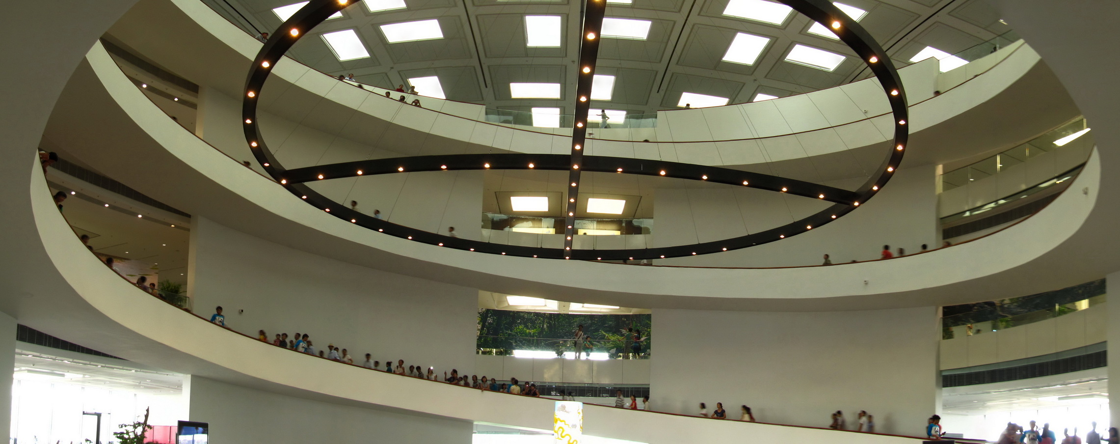 Interior of the Hanoi Museum